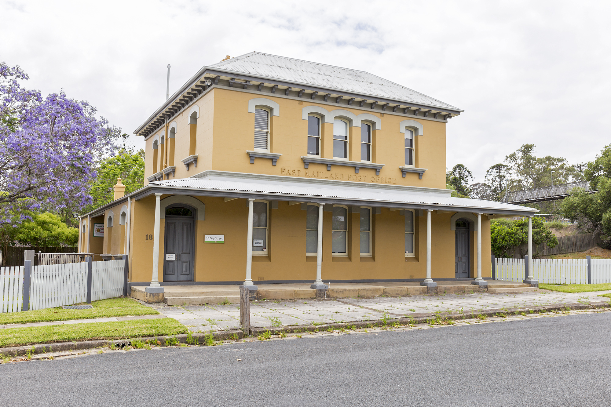 East Maitland Post Office building, now used by the Cerebral Palsy Alliance.